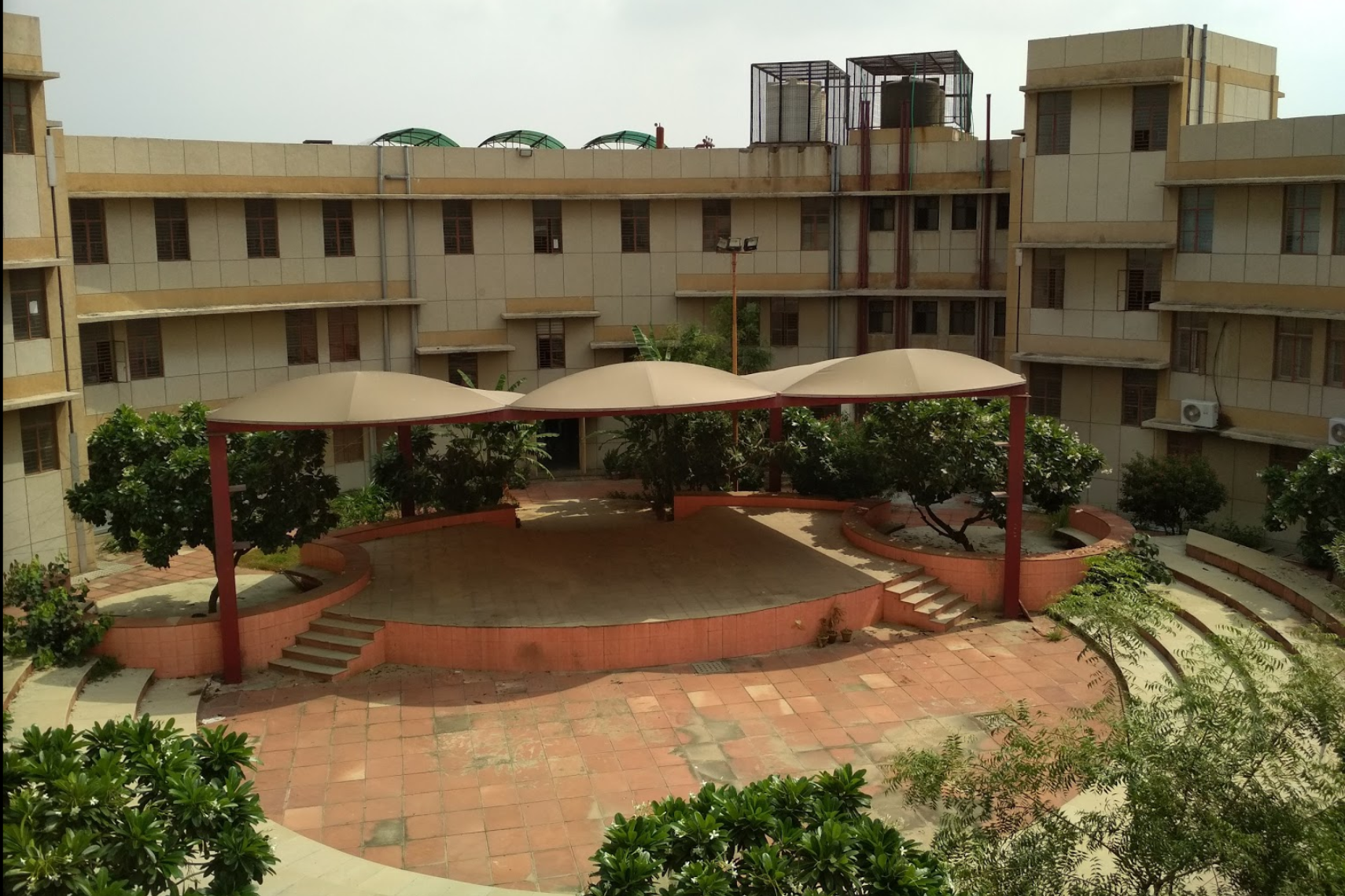 Open Air Theatre